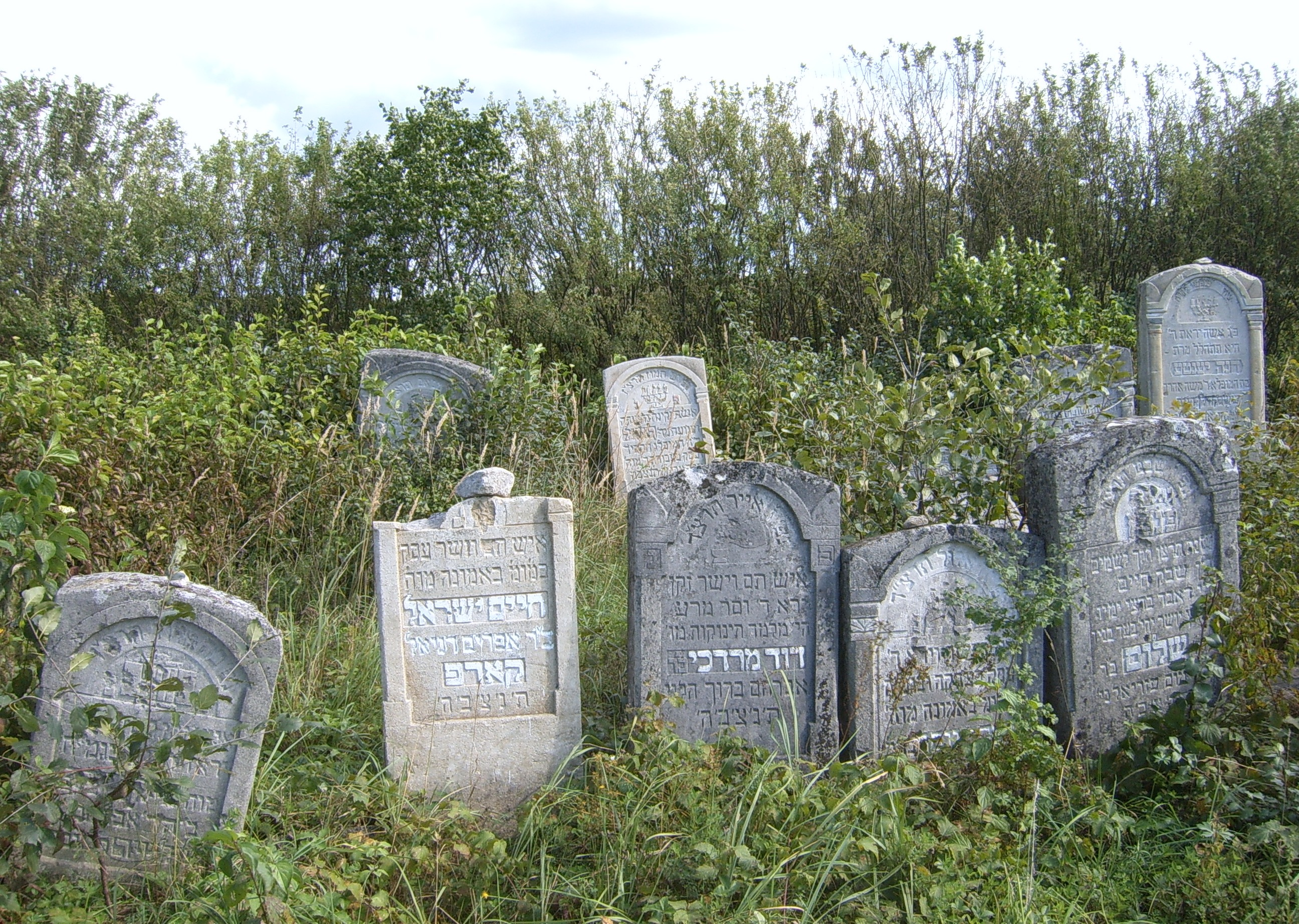 Jewish cemetery in Józefów